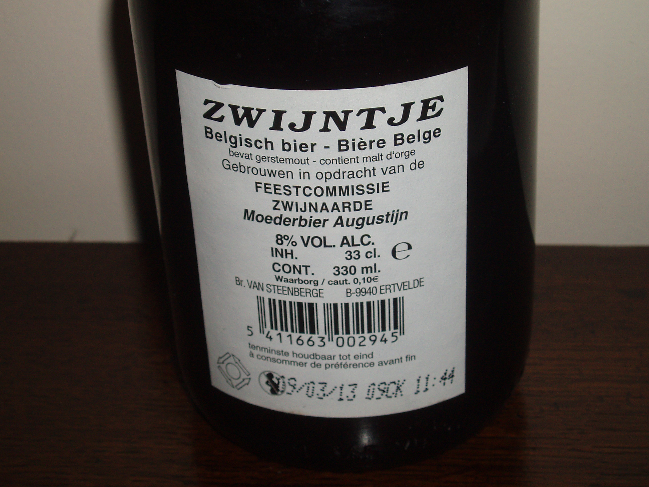 Zwijntje beer etiket